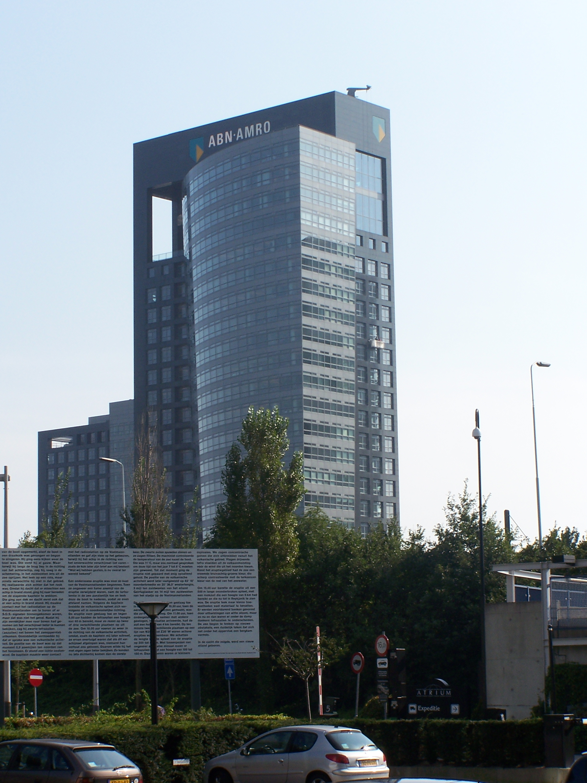 This picture shows the ABN AMRO headquarters in the Zuidas, Amsterdam. Author:Mig de Jong, september 2005